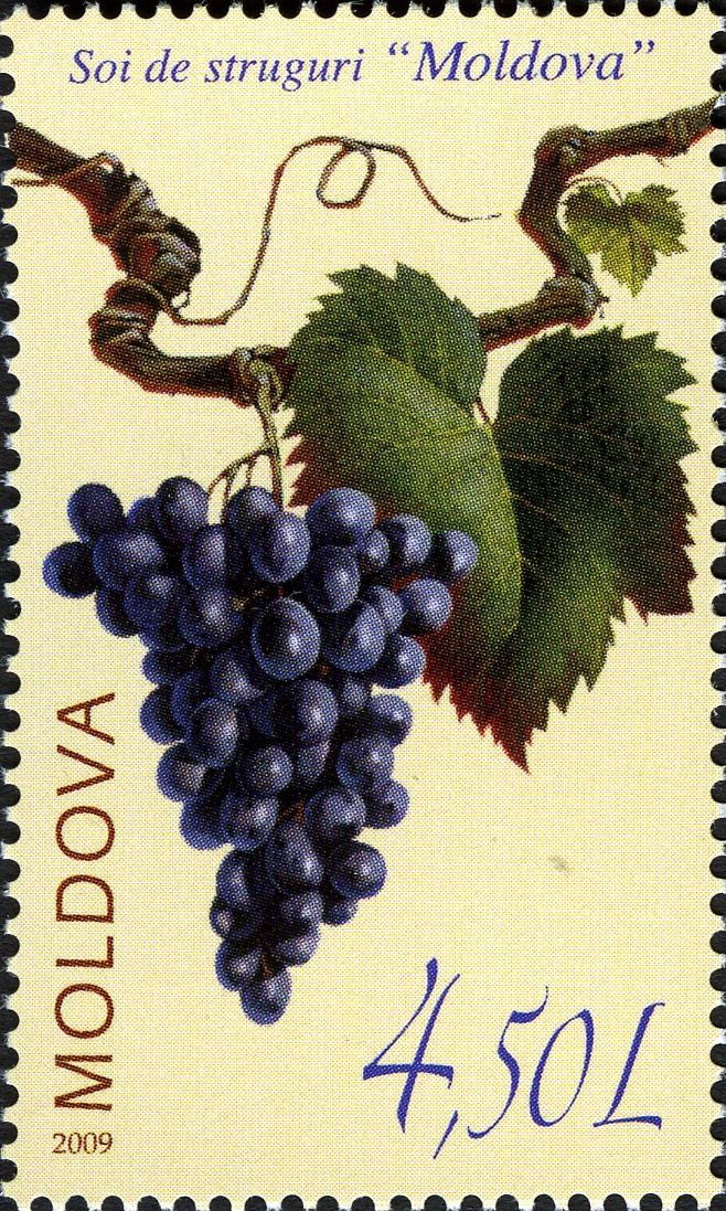 ”Moldova” grape variety on a stamp of Republic of Moldova